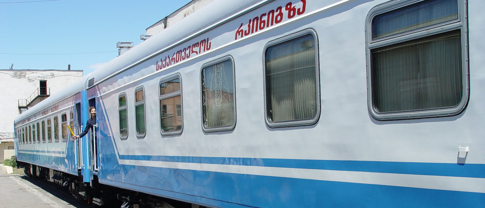 Geogria version has all information , english version has limited information .. online booking now available